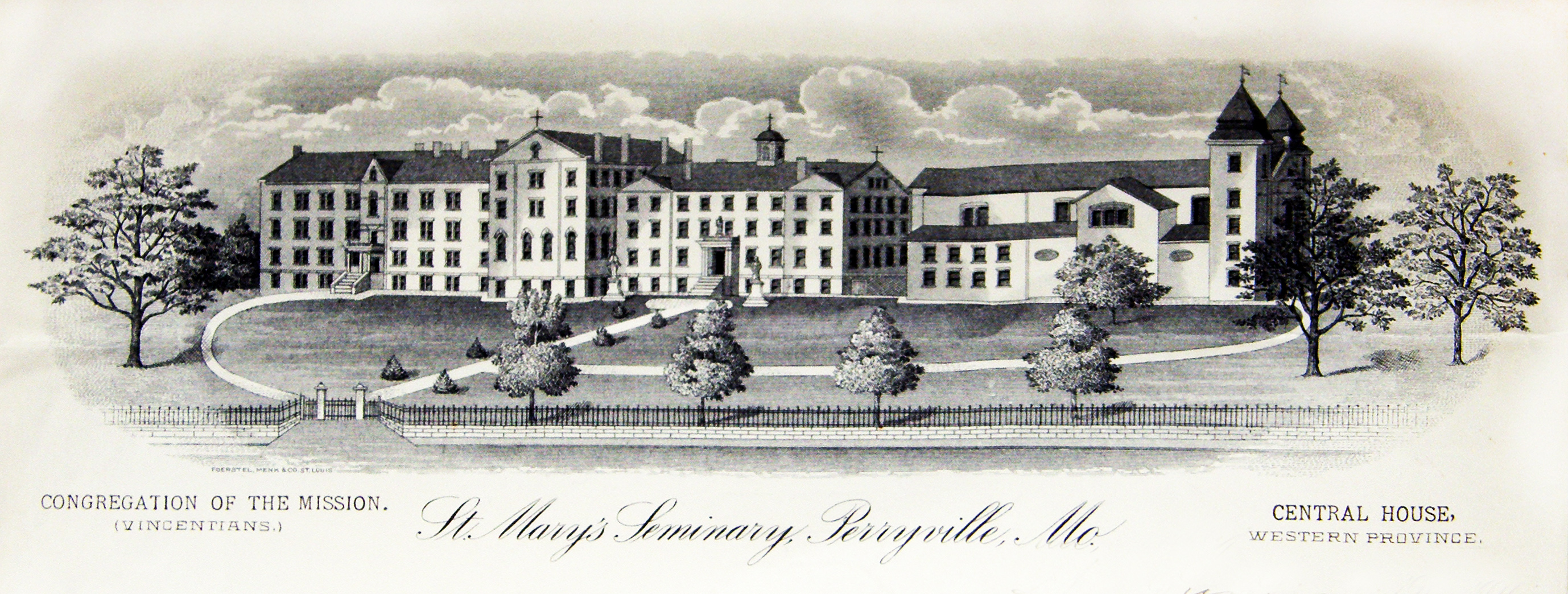 St. Mary's of the Barrens (Perryville, Missouri) 2, early drawing